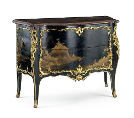 Commode, 1750-1760 V&A Museum no. 1094-1882 Techniques - Veneered with panels of Japanese lacquer, the borders japanned, on an oak carcase, with gilt-bronze mounts and a griotte d'Italie marble slab Artist/designer - Vanrisamburgh, Bernard II, born after 1696 - died 1766 to 1767 Place - Paris, France Dimensions - Height 83.3 cm Width 115.2 cm Depth 53.3 cm The fashion for integrating Asian lacquer panels (decorated with a resin varnish made from the sap of a tree) into European furniture was at its height in the mid-18th century when this commode (chest of drawers) was made. Lacquer from Japan or China was very costly, and the application of flat panels of lacquer on this type of swollen-fronted (or bombé) commode required a very high degree of skill. Bernard Vanrisamburg was one of the most eminent Paris craftsmen working in this style. The commode is likely to have been displayed in a grand reception room (or salon) or a bedroom.